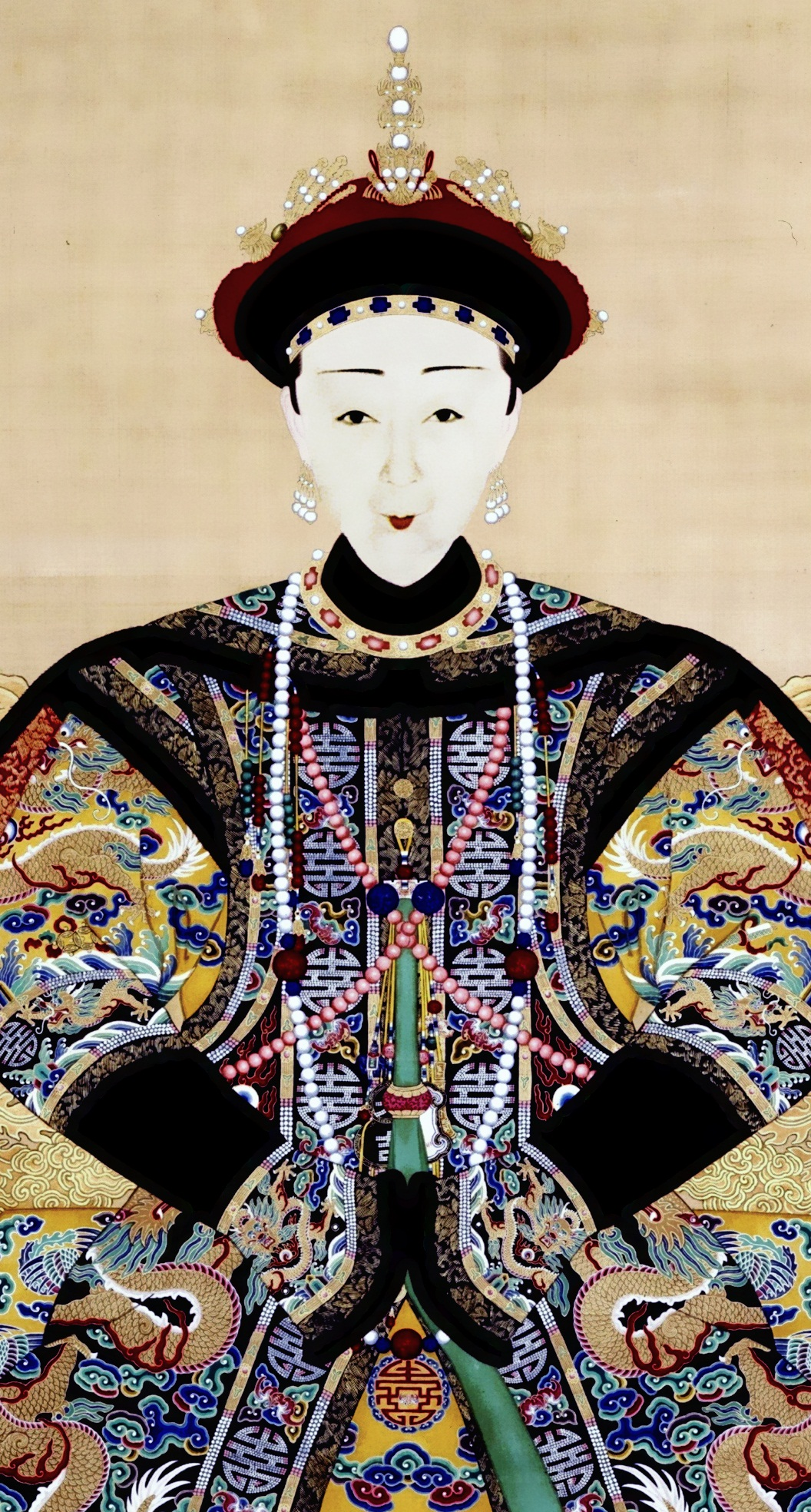 Empress Xiaoshencheng, the first Empress Consort of the Daoguang Emperor of the Qing dynasty